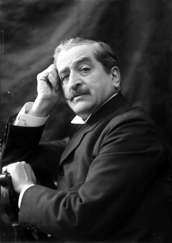 Francesco Pasta fotografato da Mario Nunes Vais